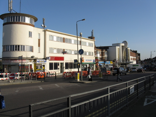 Exotic constructions, Rayners Lane